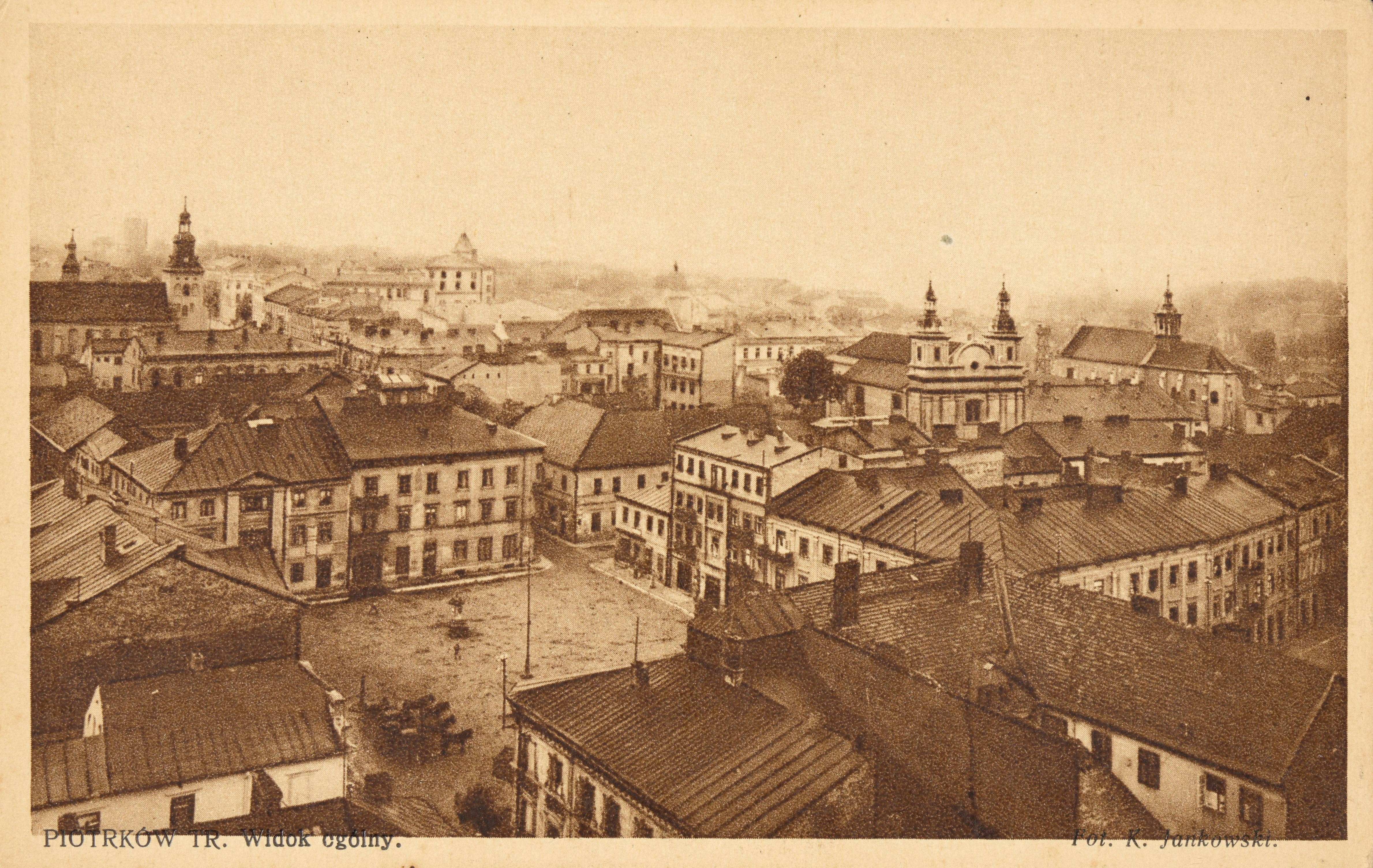 Old Town in Piotrków Trybunalski in Poland circa 1933.